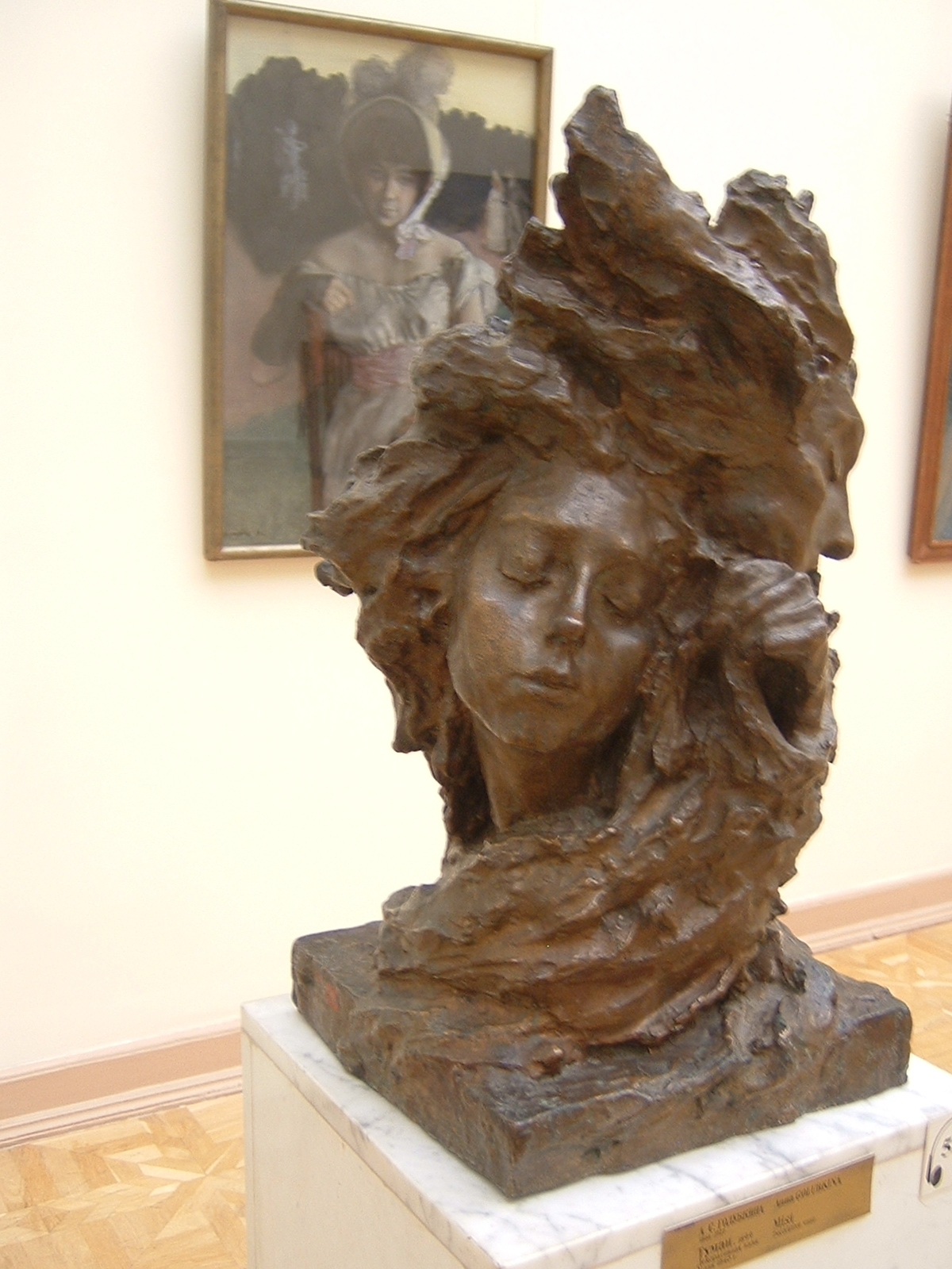 Anna Golubkina Mist, decorative vase, 1899 The Russian Museum, Photography is mine